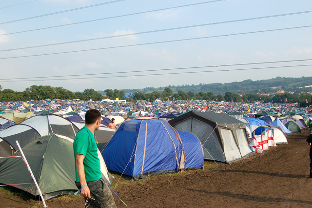 Glastonbury Festival - camping under power lines east of Pyramid Stage area